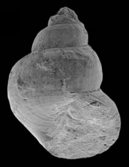 Photo of an apertural view of a holotype of Provanna hirokoae from the uppermost Middle Miocene Ogaya Formation (locality 3), Japan. JUE 15901.